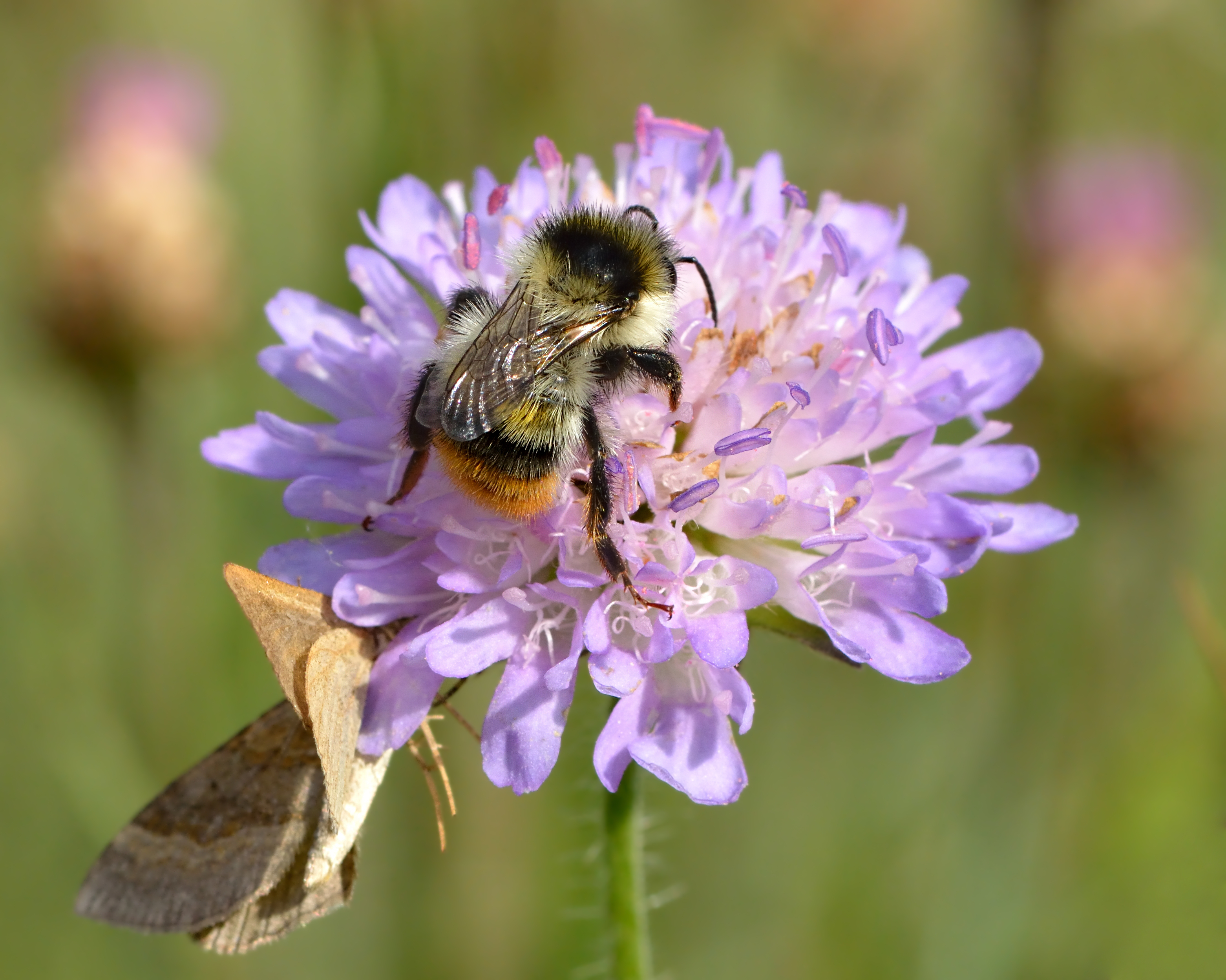 Male shrill carder bee (Bombus Sylvarum) on the field scabious (Knautia arvensis). Keila, Northwestern Estonia.